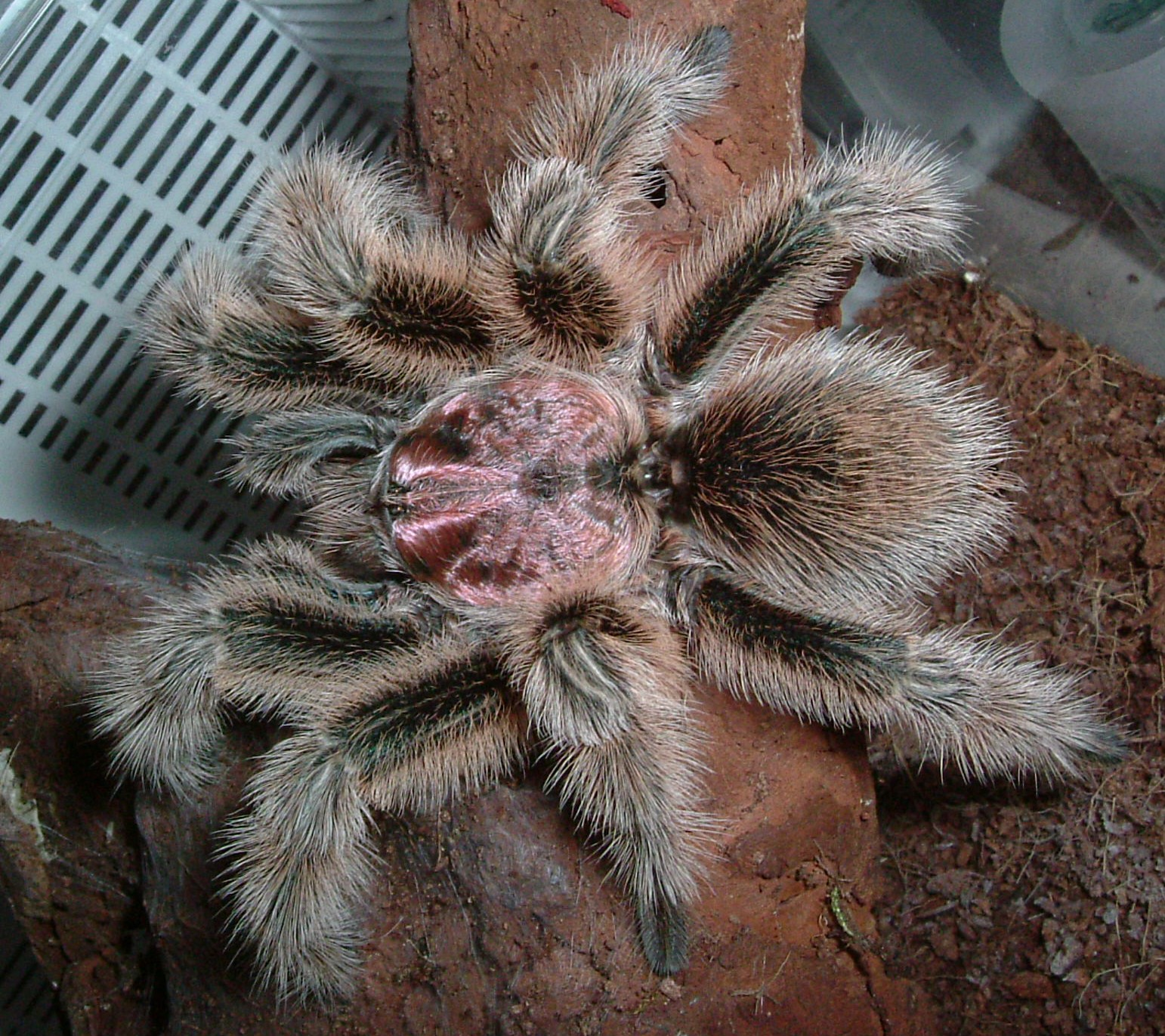 (Grammostola cf. porteri), adult male